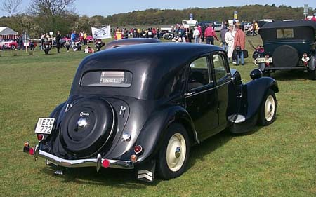 1949 citroen traction avant taken by thomas forsman